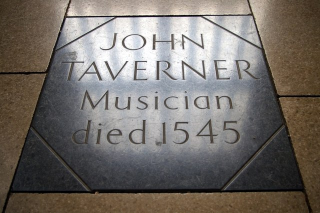 Grave of John Taverner Taverner, one of the greatest early Tudor composers, is buried under the tower of St Botolph's church.